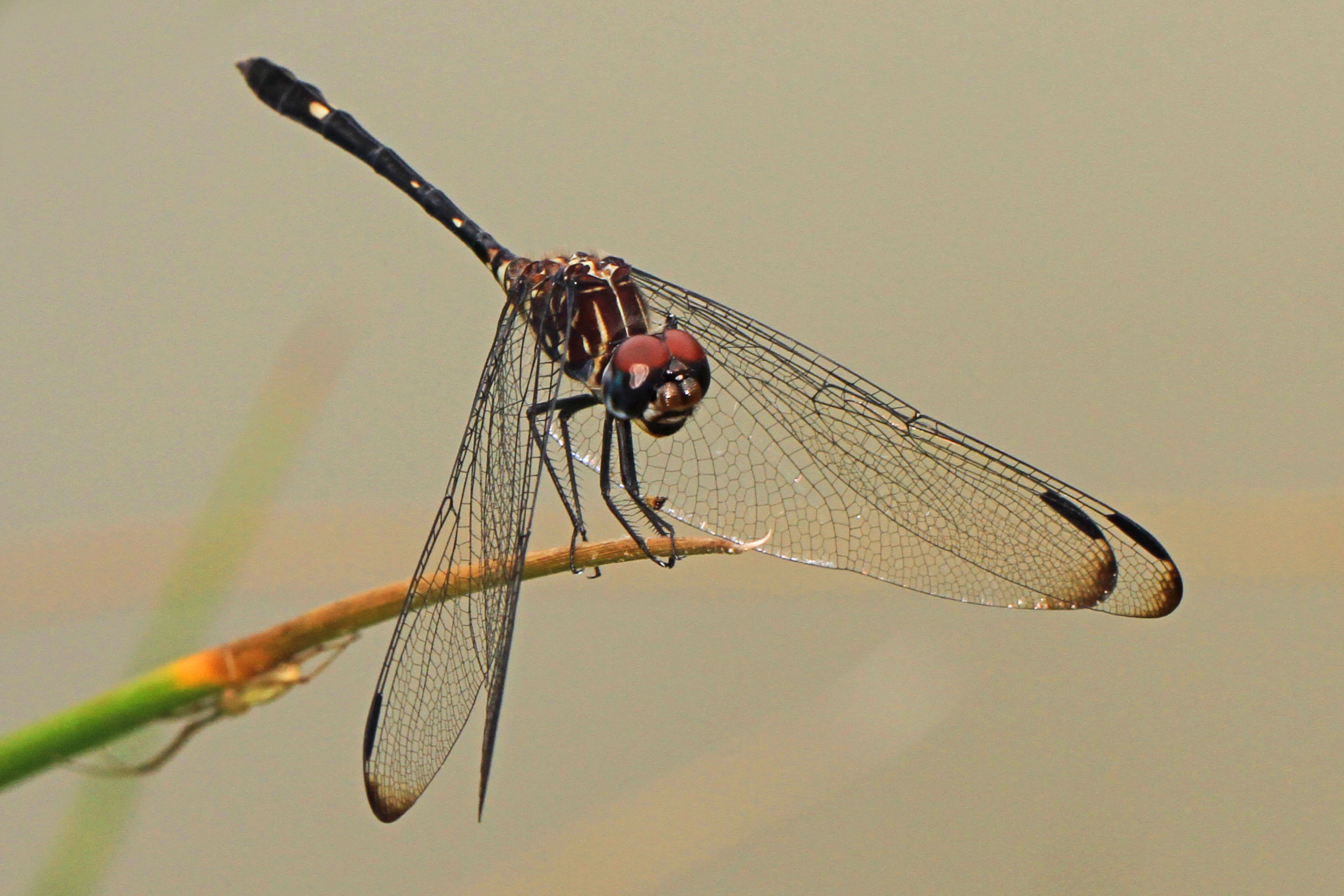 Swift Setwing - Dythemis velox, Jackson Abbott Wetlands, Ft. Belvoir, Virginia. He prudently moves to the end of the reed.